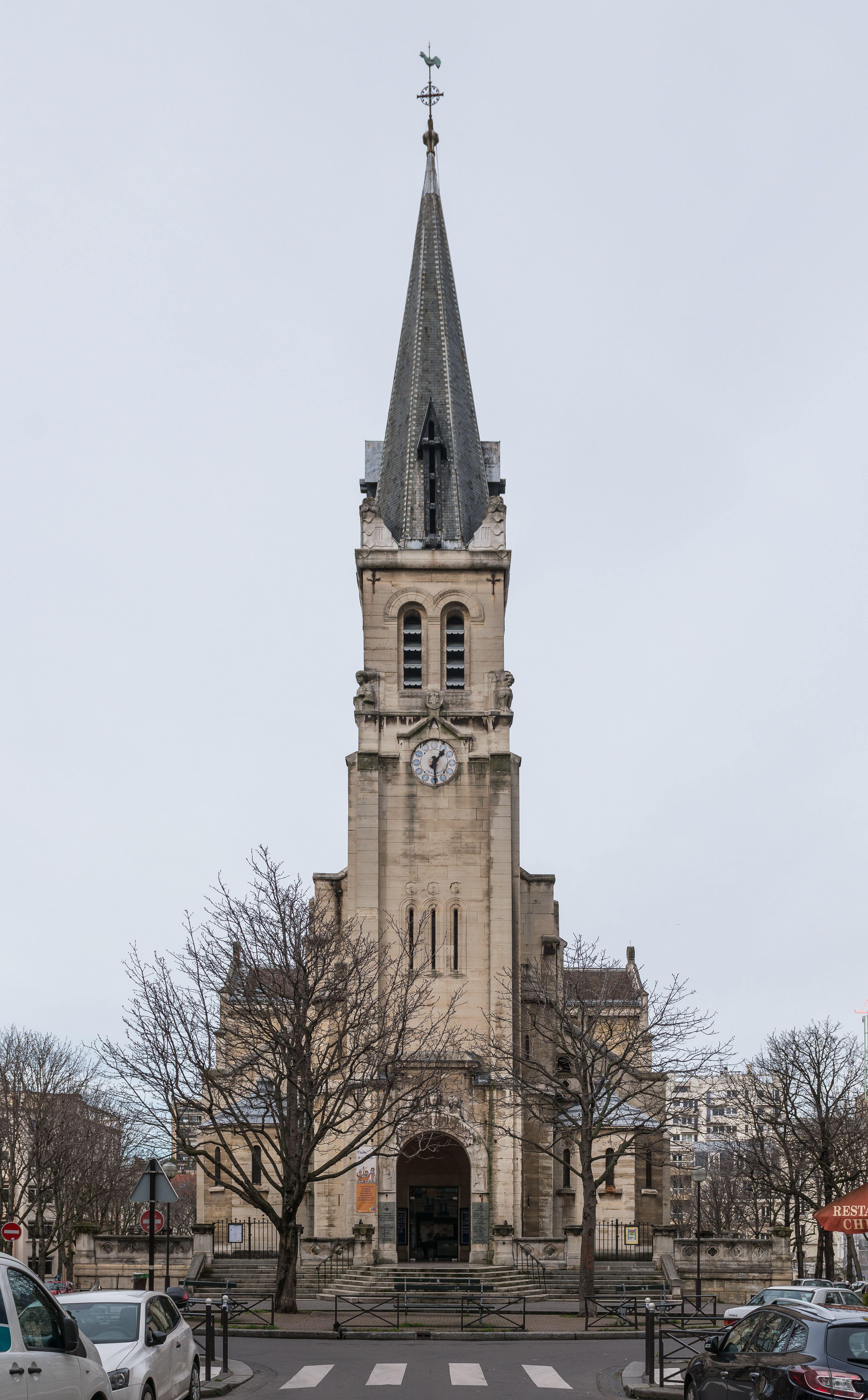 The catholic church of Saint-Lambert, in the 15th arrondissement of Paris